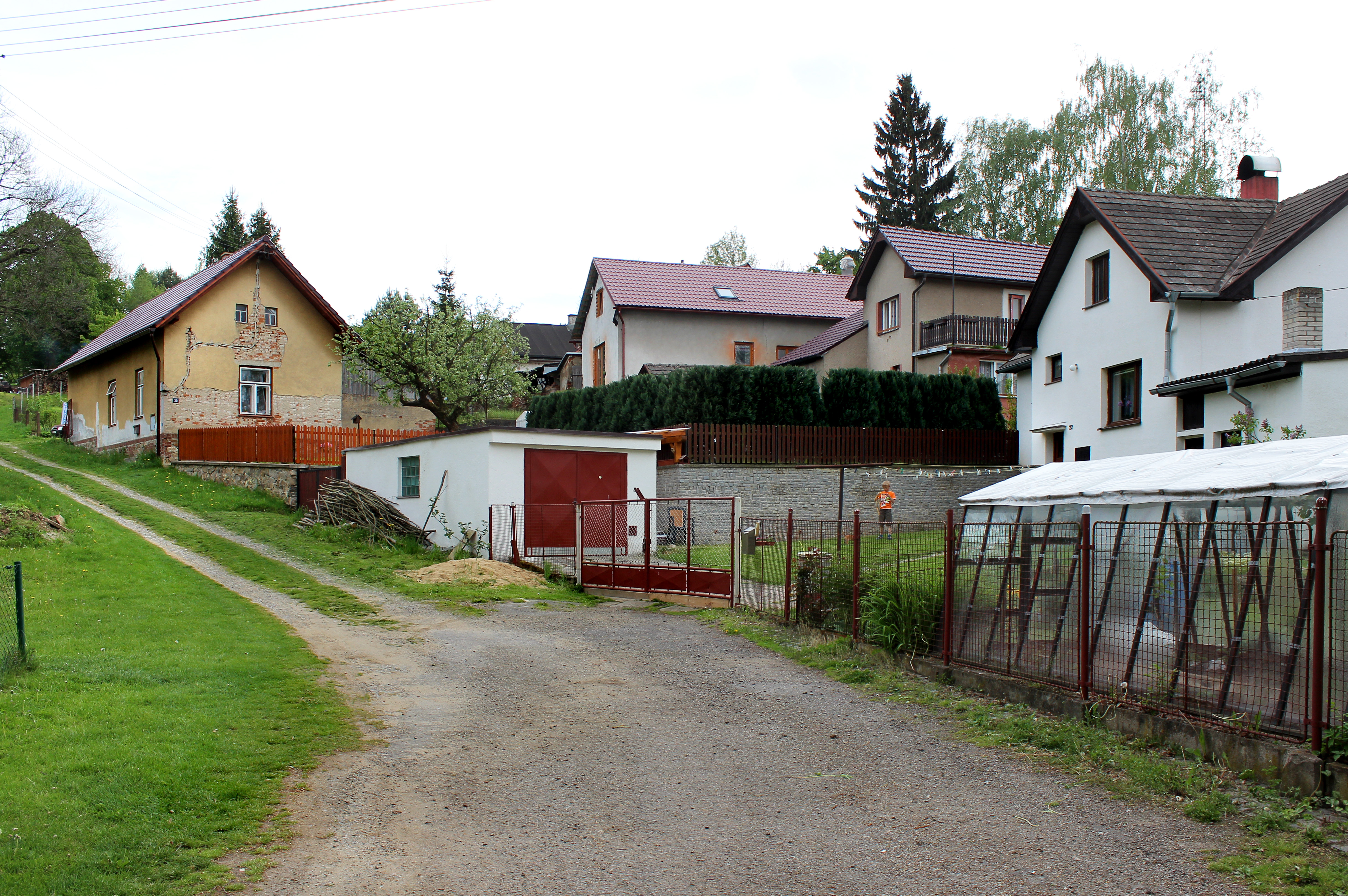 South part of Poříčí, part of Přibyslav, Czech Republic